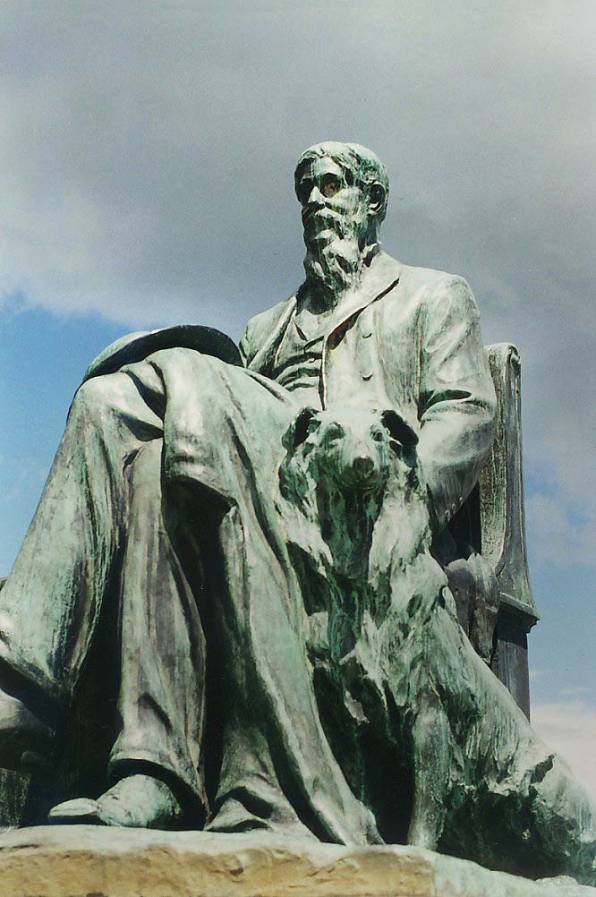 statue of Jay Cooke by Henry Shrady in Duluth MN, USA - made in 1921, so out of copyright